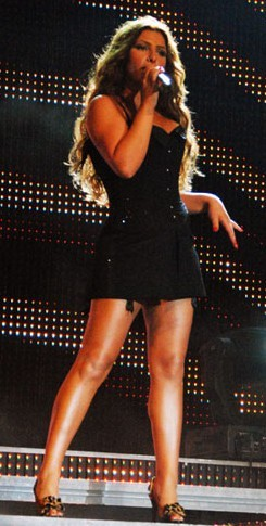 Elena Paparizou performing on the launch of the Fisika Mazi tour on 29 June 2011 at Theatro Petras in Athens.